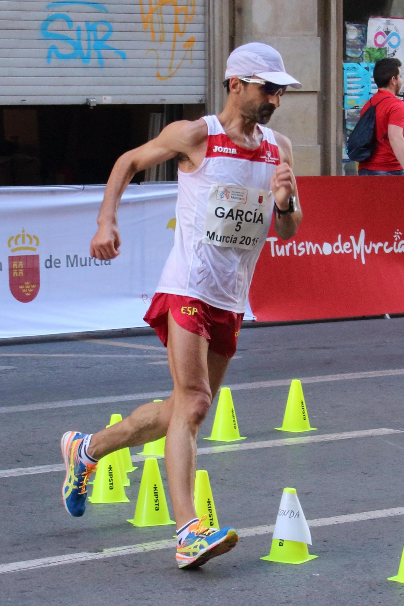 Jesus Angel Garcia Bragado, spanish race walker, in the European Cup Race Walking 2015 (Murcia, Spain).